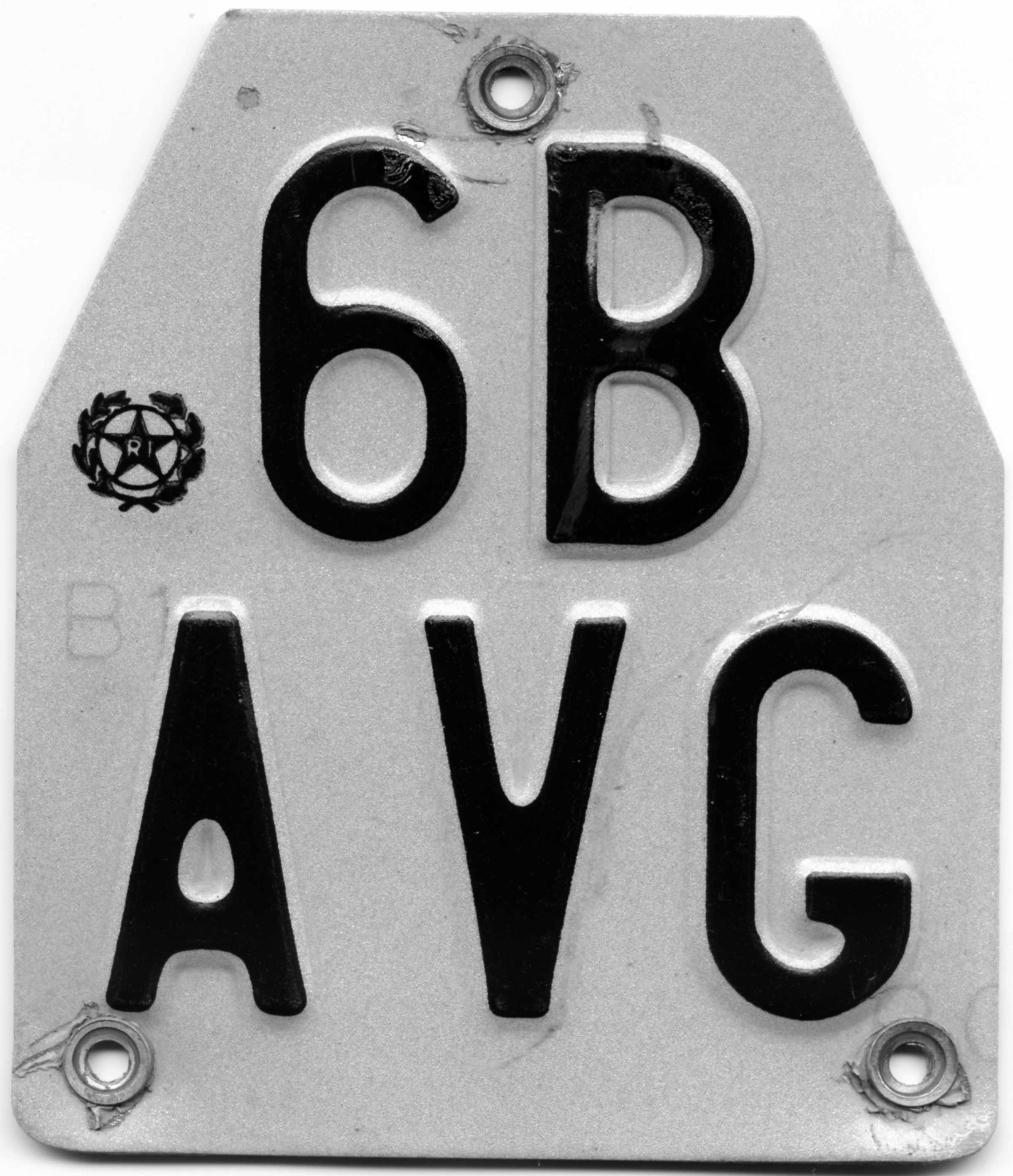 Italy, Vehicle registration plates of Italy: The license plate for the scooter in use from 1993 to 2006.